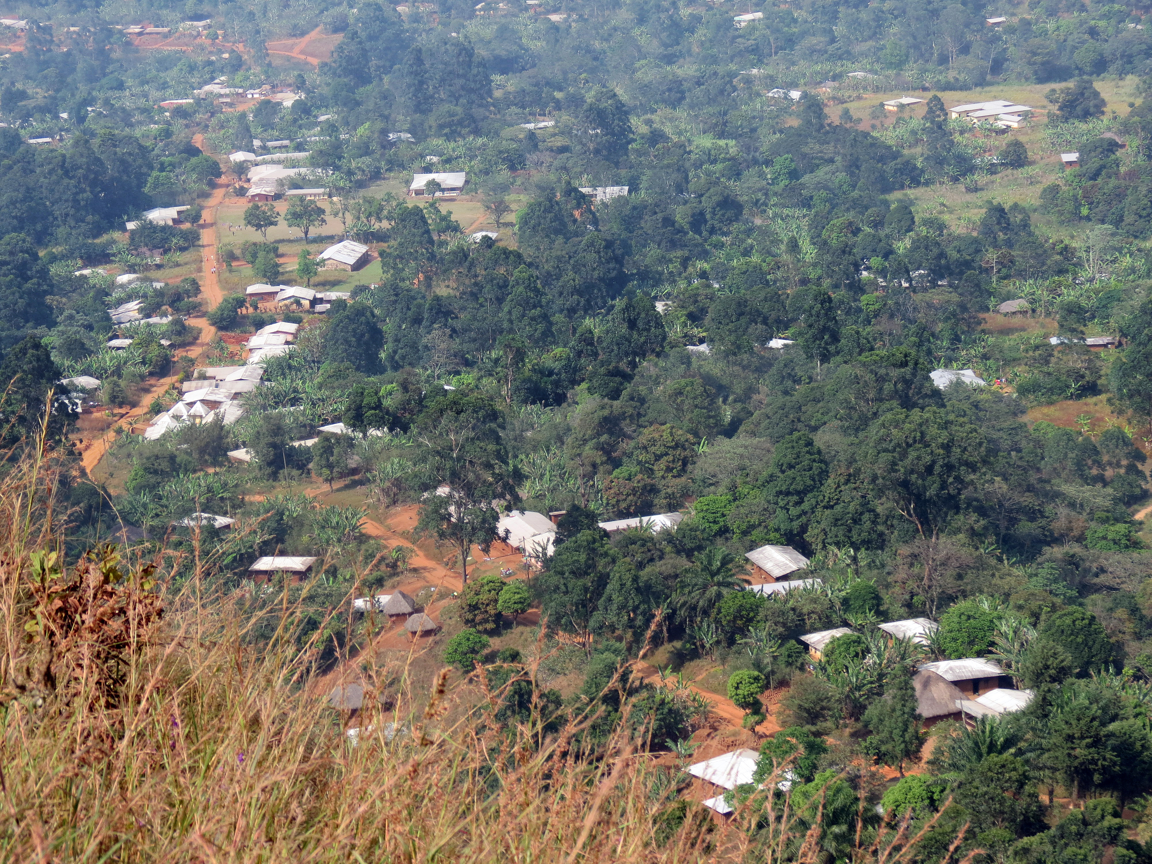 View of Belo, in the North-West region, in Cameroon